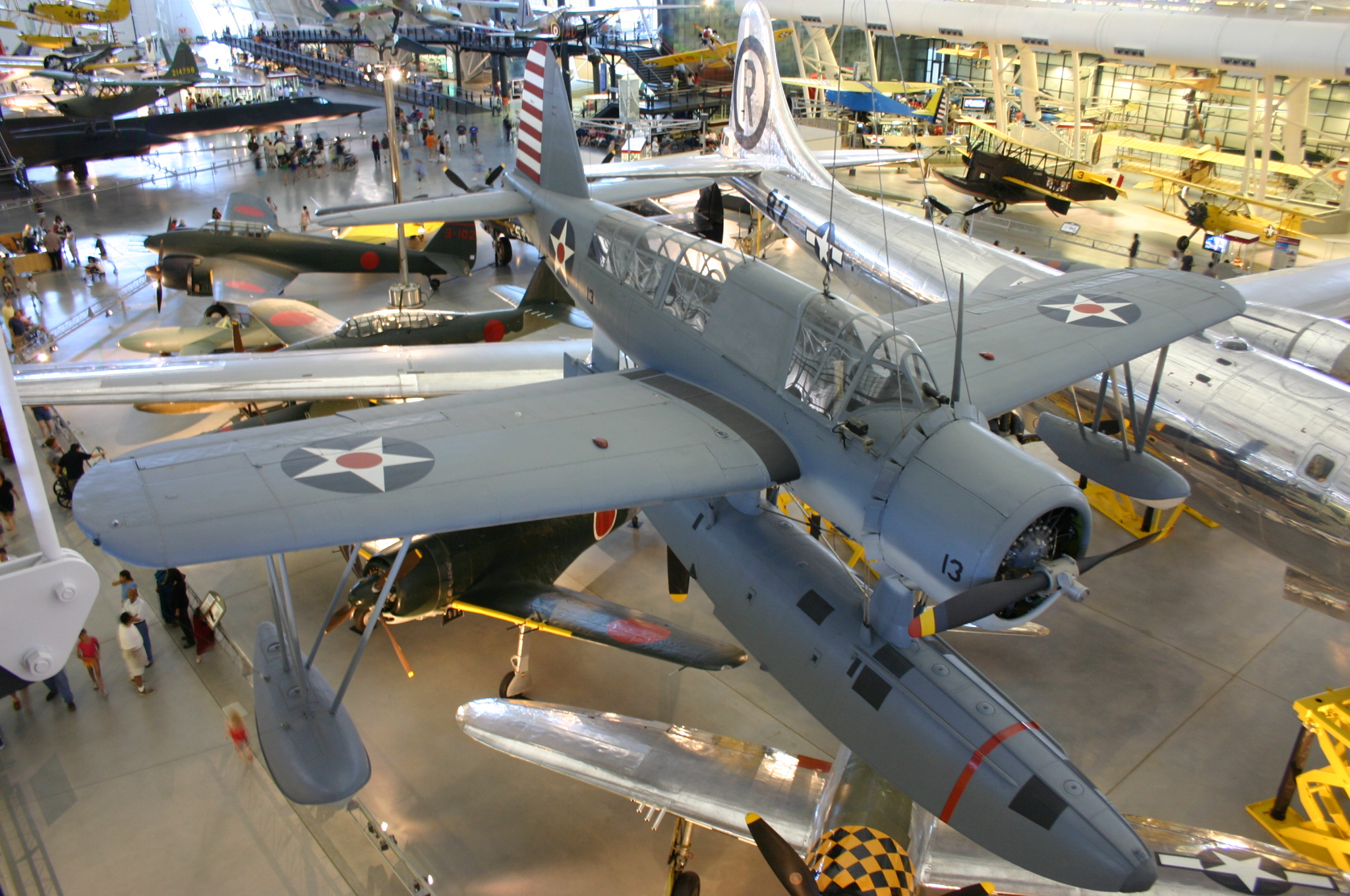 Taken at the Steven F. Udvar-Hazy Center in Dulles, VA. Visit for a daily shot of science fascination.